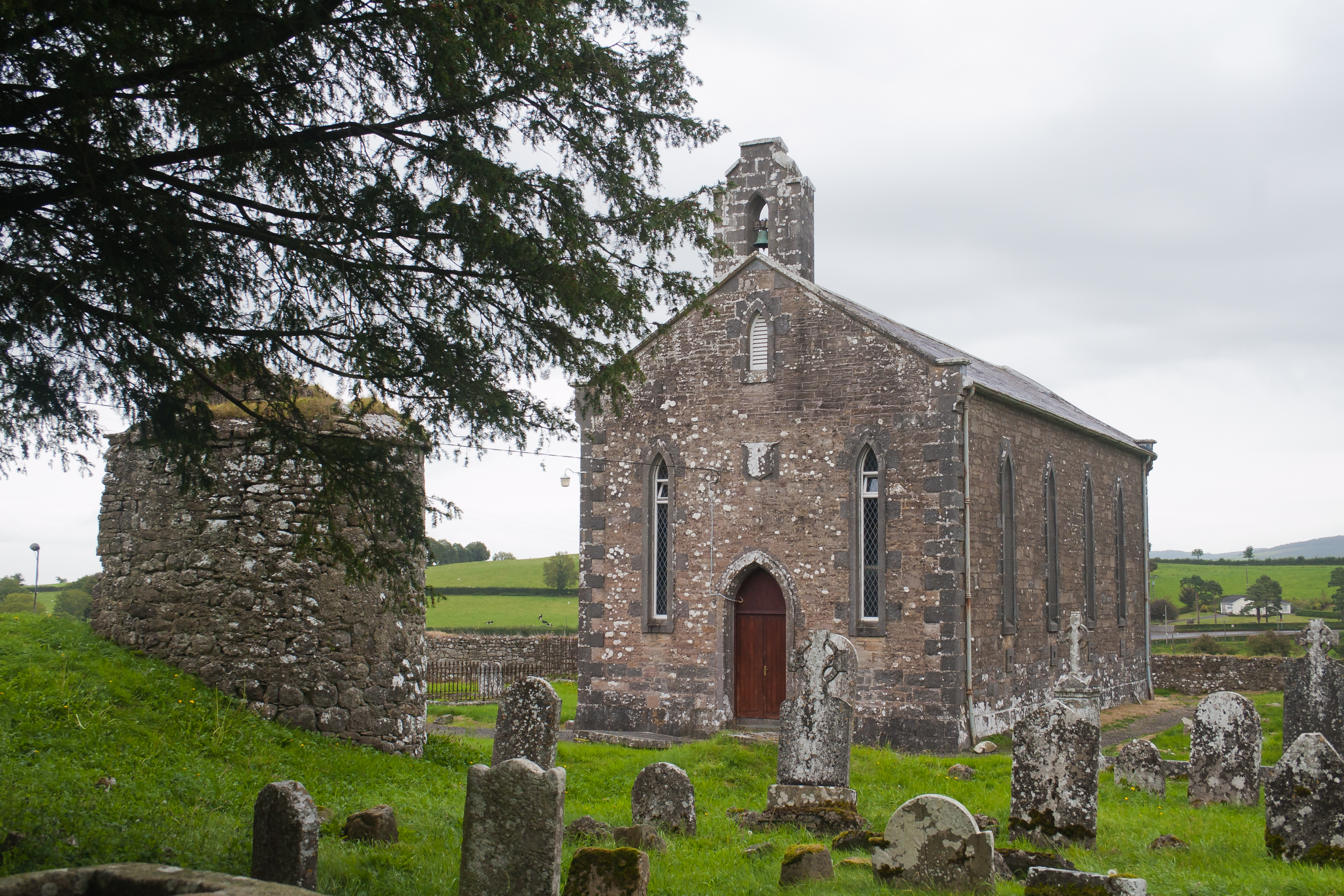 17th-century fortification (left) and 19th-century St. Ciaran's Church (right).